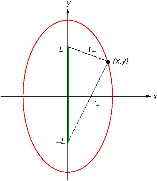 Equipotential from charged line segment